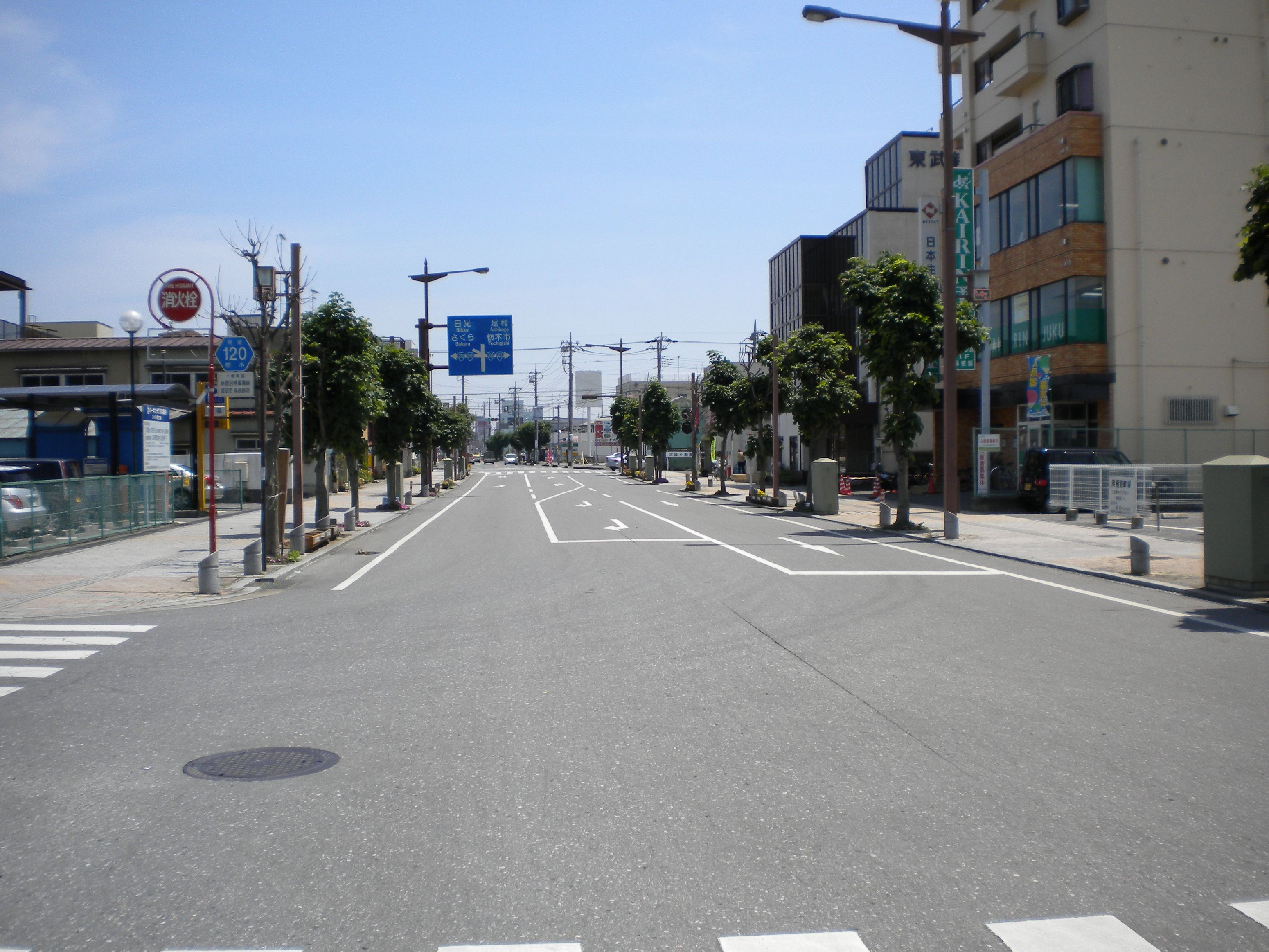 Tochigi prefectural road No.120 on Kanuma city